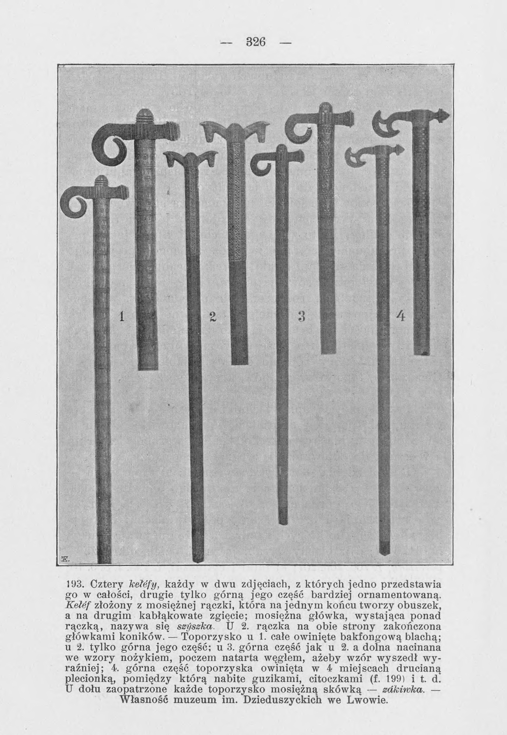 Hutsuls